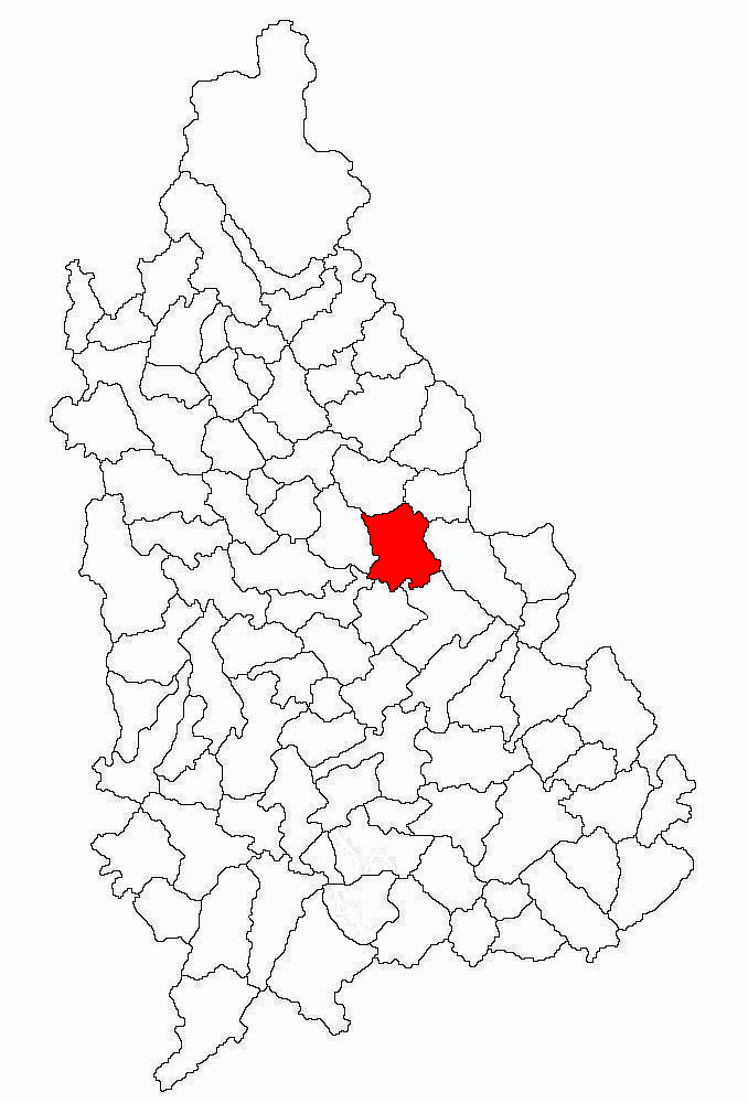 Locator map of Gura Ocniței Commune in Dâmbovița County, Romania